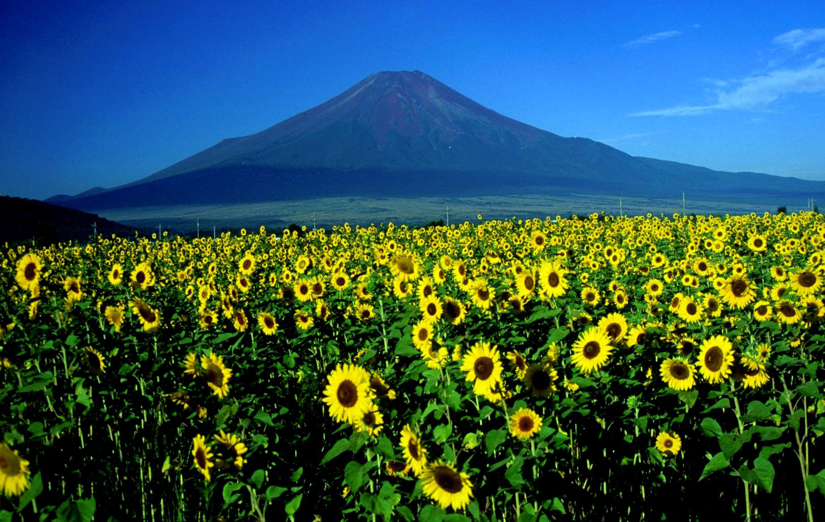 Mount Fuji and Sunflower from Yamanakako, Yamanashi